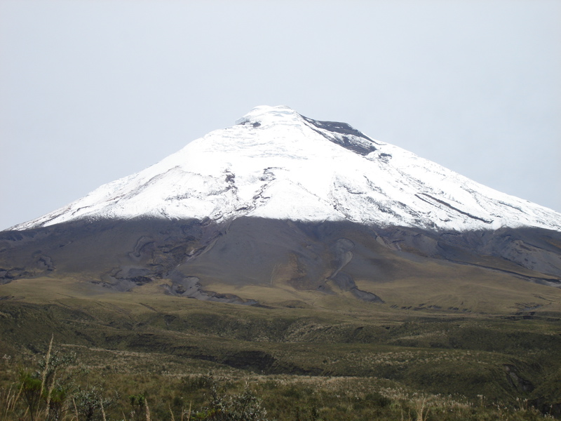 Cotopaxi from Southeast